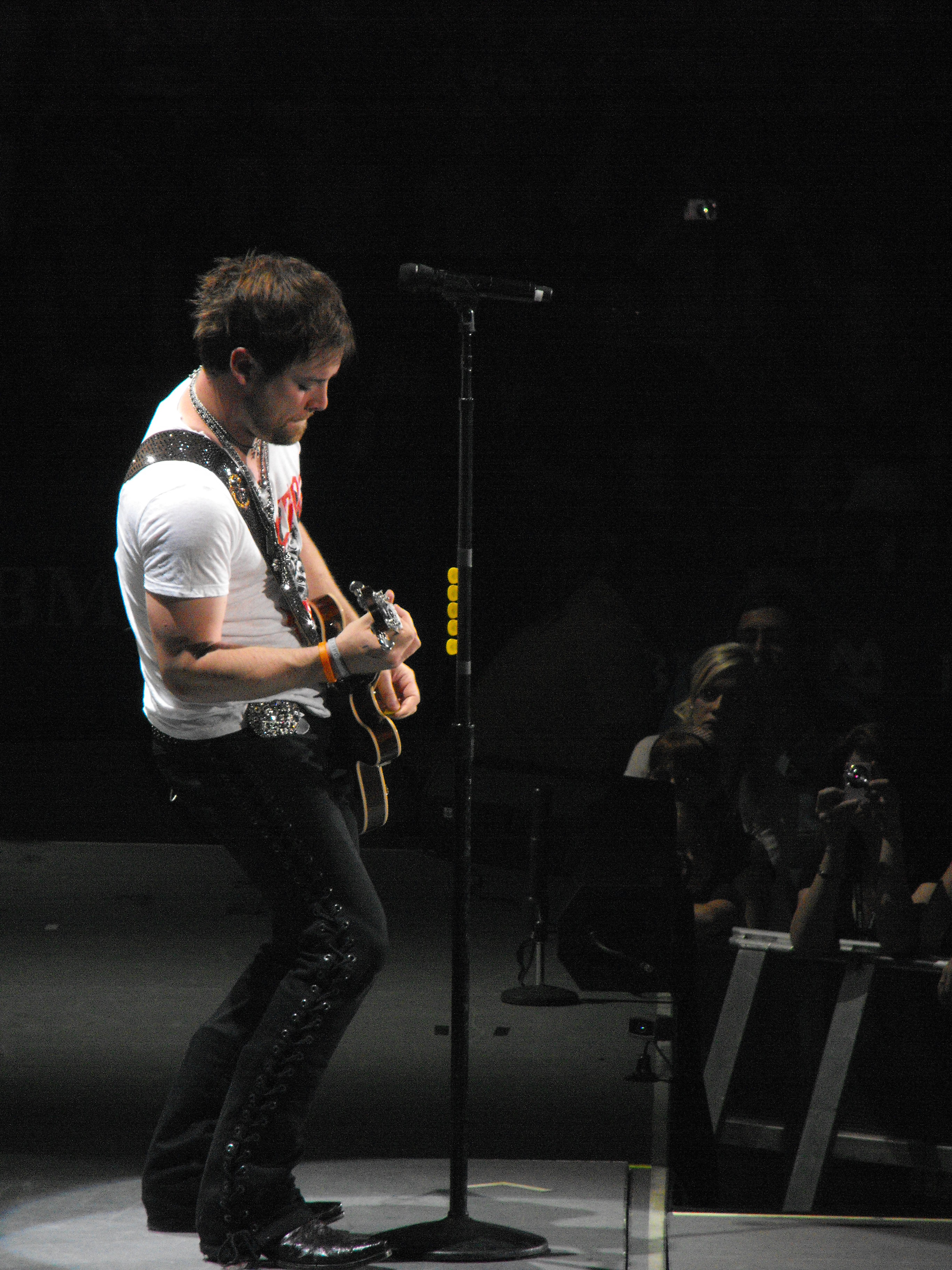 I am the originator of this photo. I hold the copyright. I release it to the public domain. This photo depicts the American singer David Cook performing during American Idol's season 7 tour.